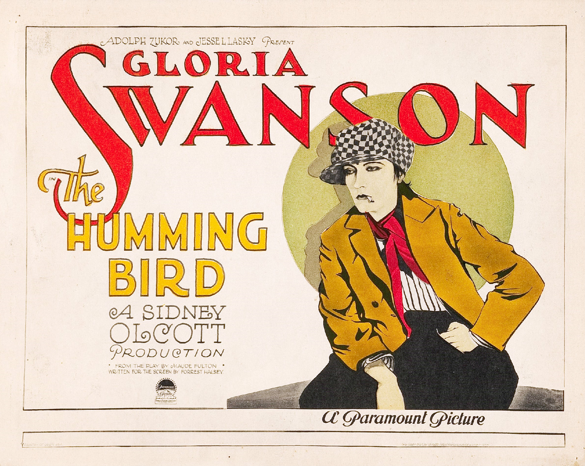 Lobby card for the American crime drama film The Humming Bird (1924). There are no copyright marks on the card. At lower left is Country of origin USA and the Paramount logo. At bottom right is This lobby display leased from Famous Players Lasky Corp.